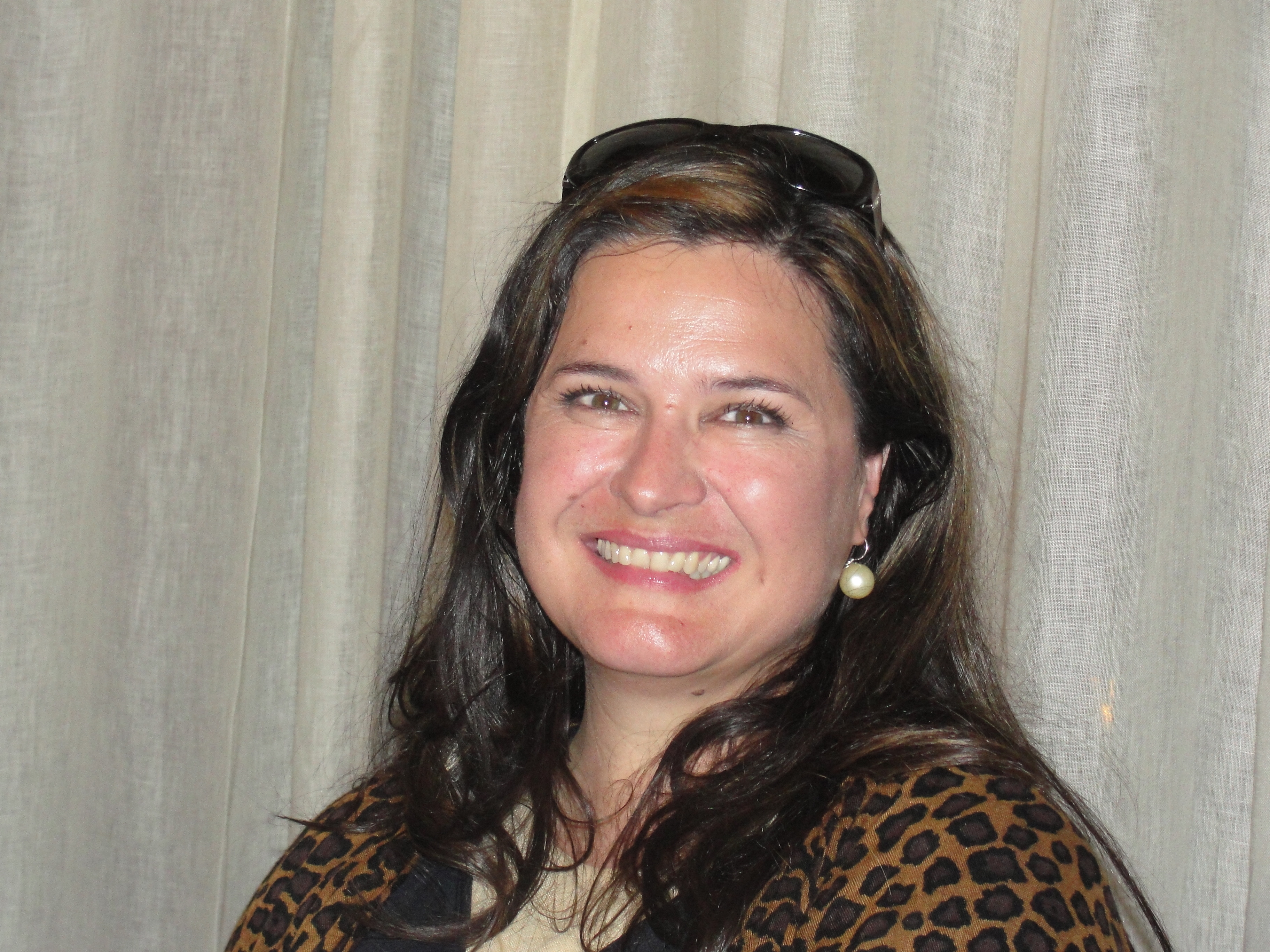 Brigitte Wohlfarth in Tbilisi, Georgia. She is a German soprano singer. She is specialized at singing operas of Richard Wagner